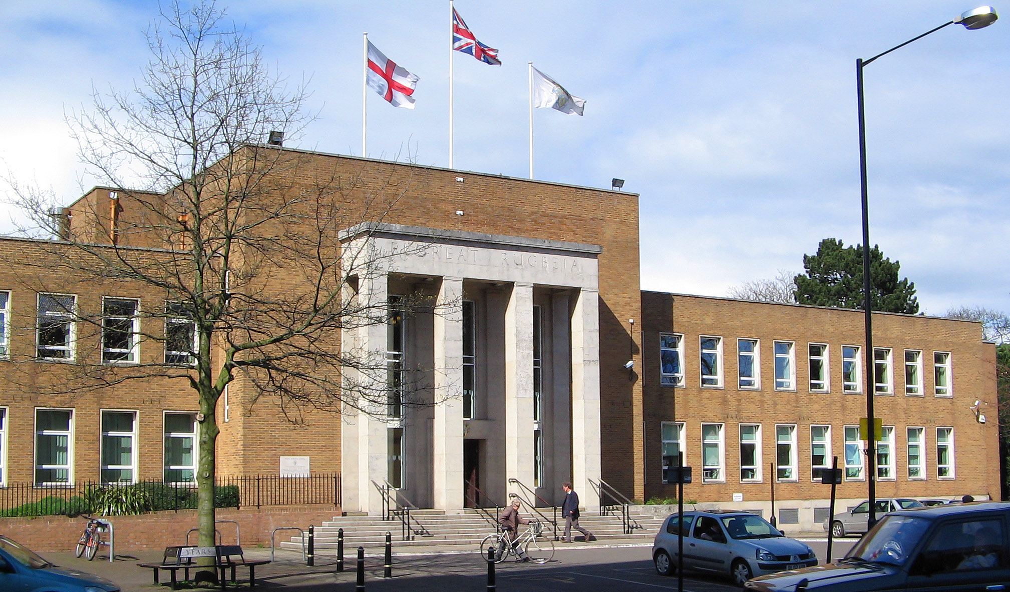 Rugby town hall in Rugby town centre, in Warwickshire, England. The hall is the headquarters of Rugby Borough Council, and was opened in 1961. The earlier town hall in the High Street is now a Marks and Spencers shop. Photo by G-Man April 2005